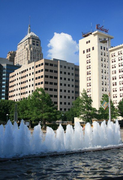 OKC skyline viewed from Myriad Gardens.